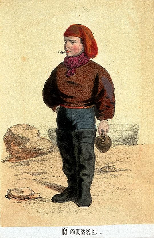 Young novice on a navy or merchant ship.